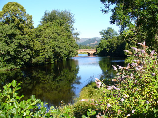 River Teith at Callander. Looking west from the footbridge to the "Red Bridge" is this stretch which has a rich variety of wildlife. Salmon jump, herons fish, and kingfishers dart beneath the bridges.